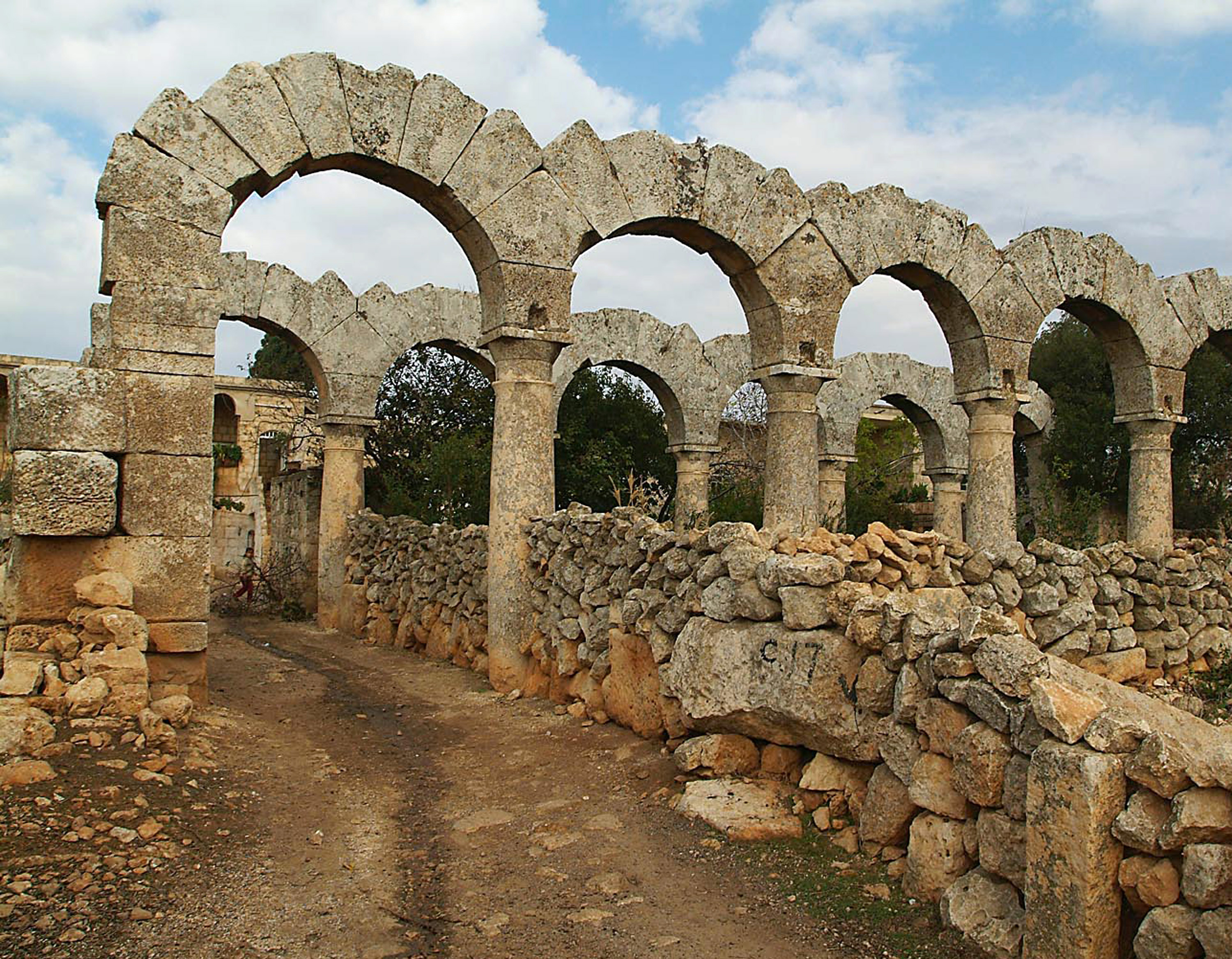 Al-Bara is the most extensive of the Dead Cities of northern Syria and one of the last to be abandoned. It held out as a bastion of Eastern Christianity until the arrival of the Crusaders in the 11th century. History After humble beginnings in the 4th century AD, Al-Bara grew into one of the most important centers of wine and olive oil production in the area. Surrounded by rich, fertile land and situated along the north-south trade route between Antioch and Apamea, Al-Bara prospered and grew, even after the trade routes shifted in the 7th century and most other settlements were abandoned. Al-Bara weathered the Islamic conquest and remained predominantly Byzantine Christian, boasting its own bishop who was subordinate to the Archbishop of Antioch. Eastern Christianity finally came to an end in Al-Bara with the occupation of the Latin Crusaders in the late 11th century. It was from Al-Bara that the Crusaders embarked on the horrible cannibalistic episode at Majarat an-Nujaman in 1098. By 1125, the Crusaders were driven out of the area and Al-Bara came under Muslim control. It was finally abandoned in the late 12th-century, probably because of an earthquake. There is no obvious route through the site of Al-Bara and the land is densely covered with trees and undergrowth. The land is still fertile here, and some small plots among the stones are still worked for olives, grapes and apricots. The ruins of Al-Bara cover 6 sq km and incorporate numerous large villas, three monasteries, and as many as a dozen Byzantine churches. Five churches can still be seen amongst the ruins today. The most striking structures are a pair of pyramid tombs, standing 200m apart. These monumental tombs, decorated with carved acanthus leaves, testify to the one-time wealth of this city. The larger pyramid still houses five sealed and decorated sarcophagi. Continuing south past the pyramid tombs, there is an underground tomb with three arches and a large, well-preserved monastery.